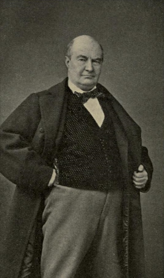 Charles Augustin Sainte-Beuve.